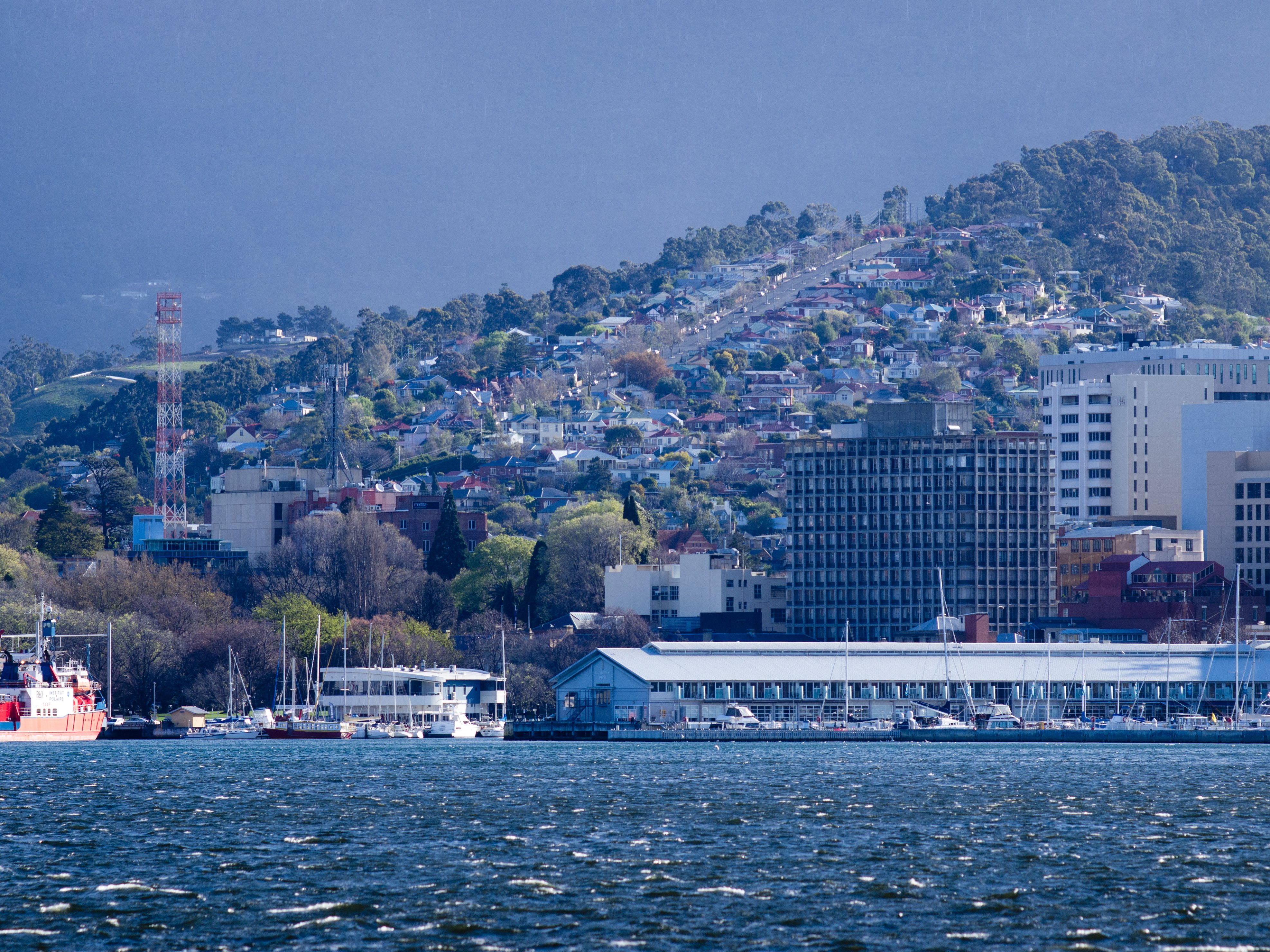 Elizabeth St Pier in the foreground, with high rise 10 Murray St directly behind. Hill St rises in the background traversing West Hobart south (left) to north (right).